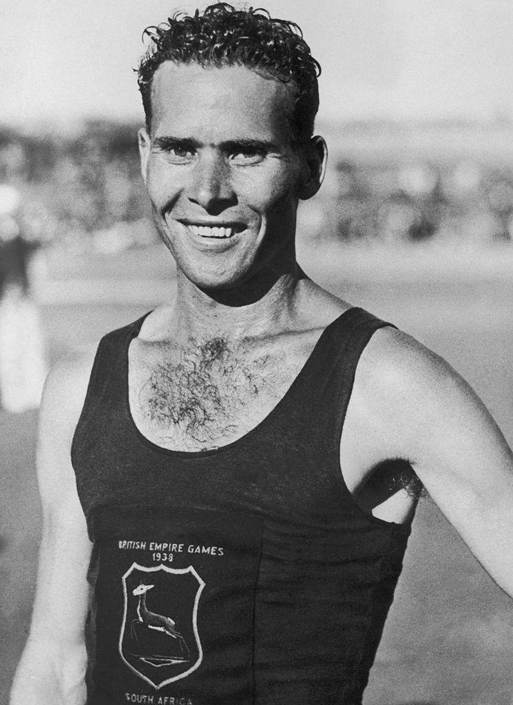 Johannes Coleman of South Africa wins the gold medal in the marathon at the British Empire Games (later the Commonwealth Games) in Sydney, 1938.